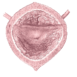 Organ available for use in the Häggström diagrams